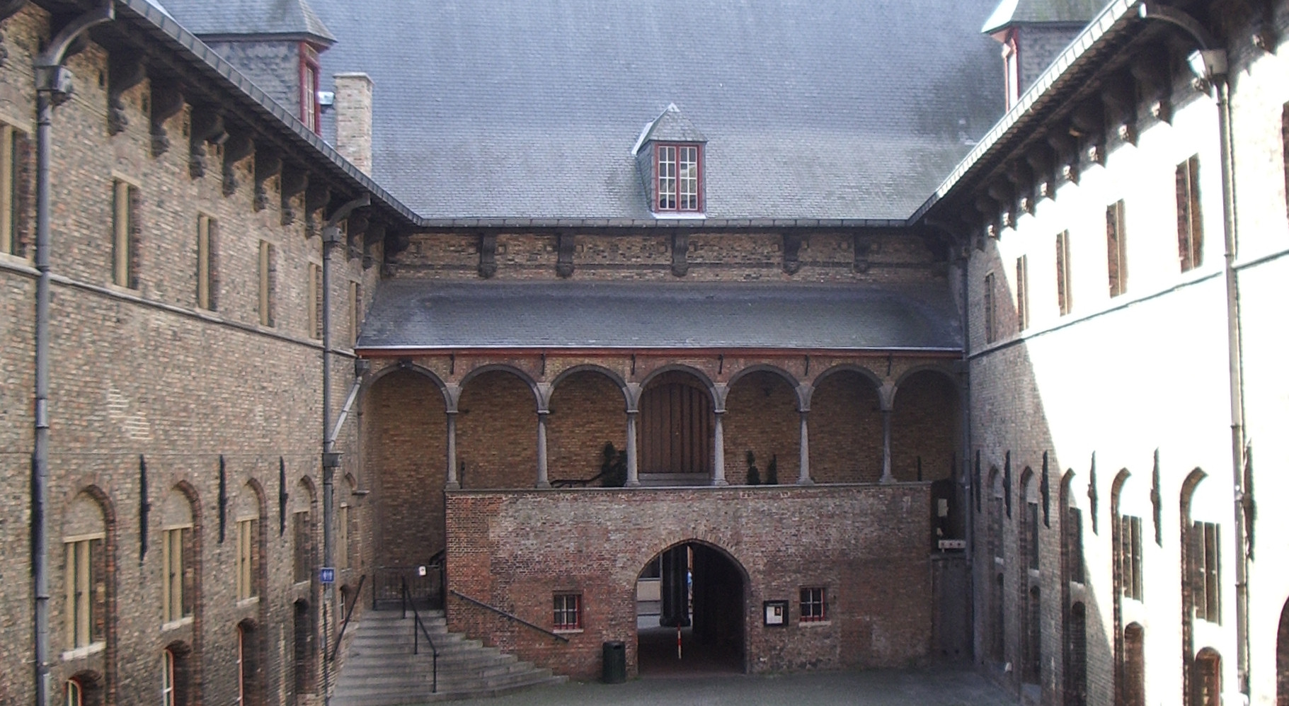 Interior. This was a big trading place in the olden days.